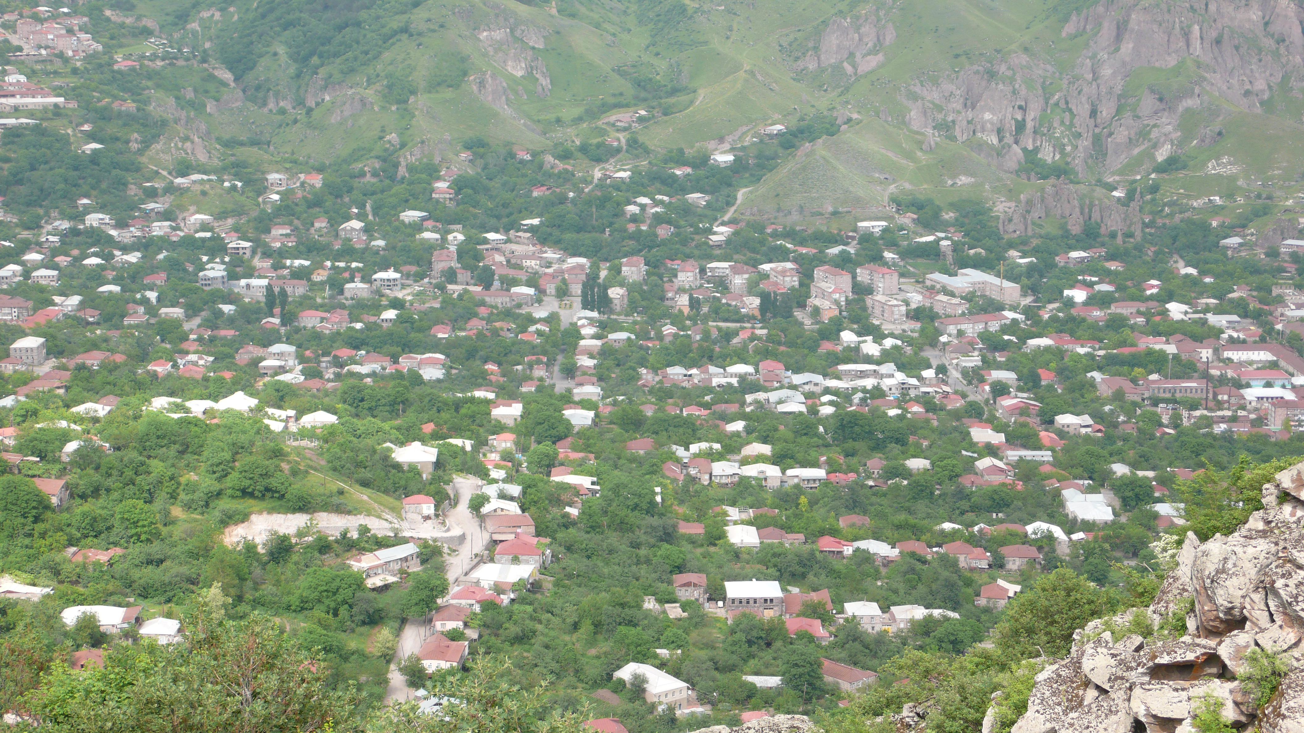 Goris town